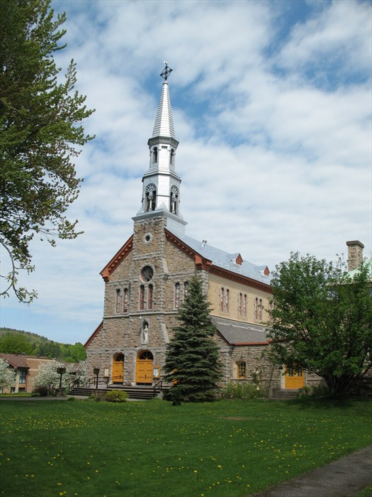 The Church of the town of Montebello in Quebec, the architect is Napoleon Bourassa